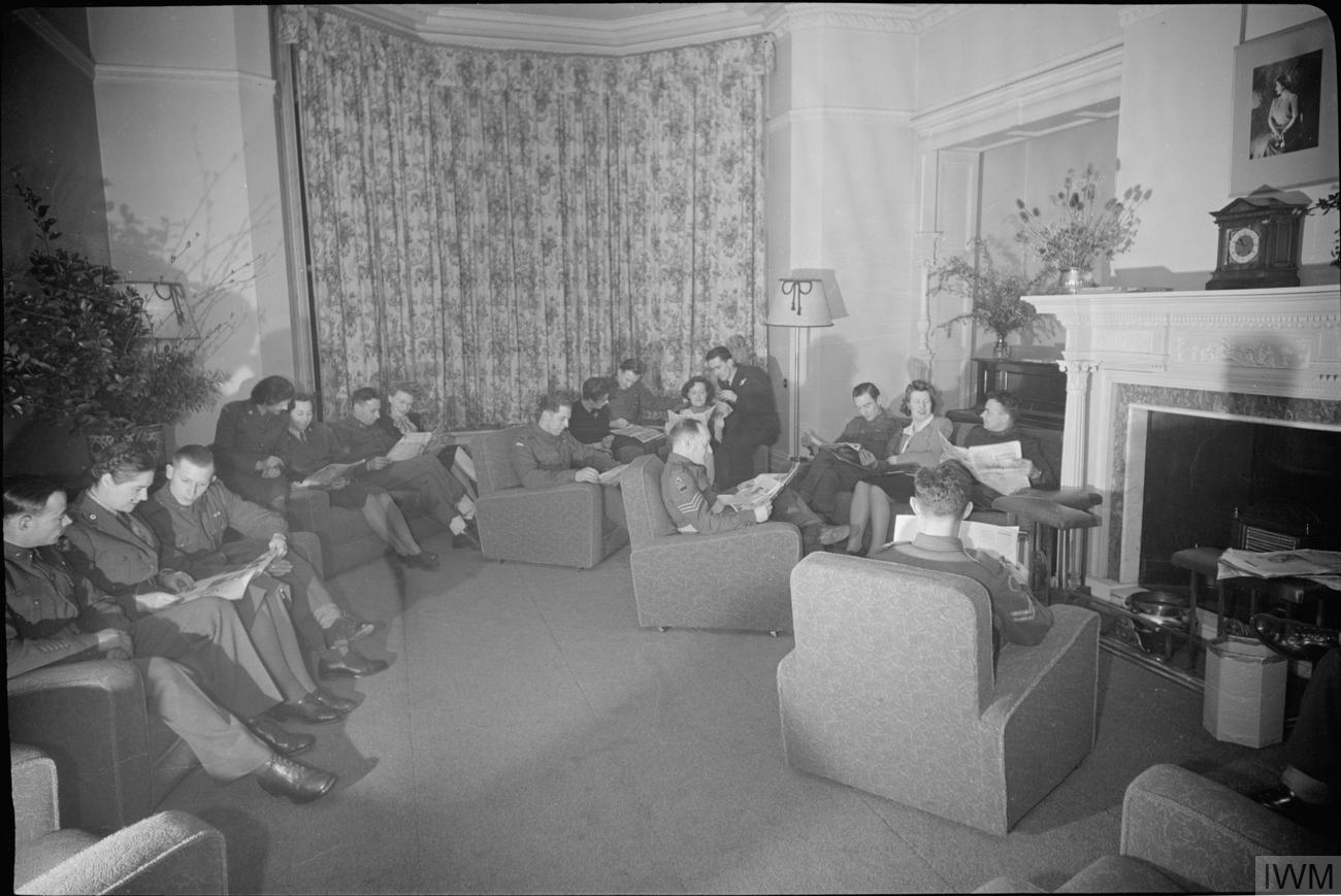 Eastbourne Club For Australian Repatriated Prisoners- the Opening of Gowrie House, Eastbourne, Sussex, England, UK, 1945 A general view of one of the lounges at Gowrie House, Eastbourne. Australian repatriated prisoners, Red Cross staff and civilians relax and read the newspaper. The original caption states that the lounge is "furnished with comfortably upholstered chairs, a thick pile carpet and attractive curtains".